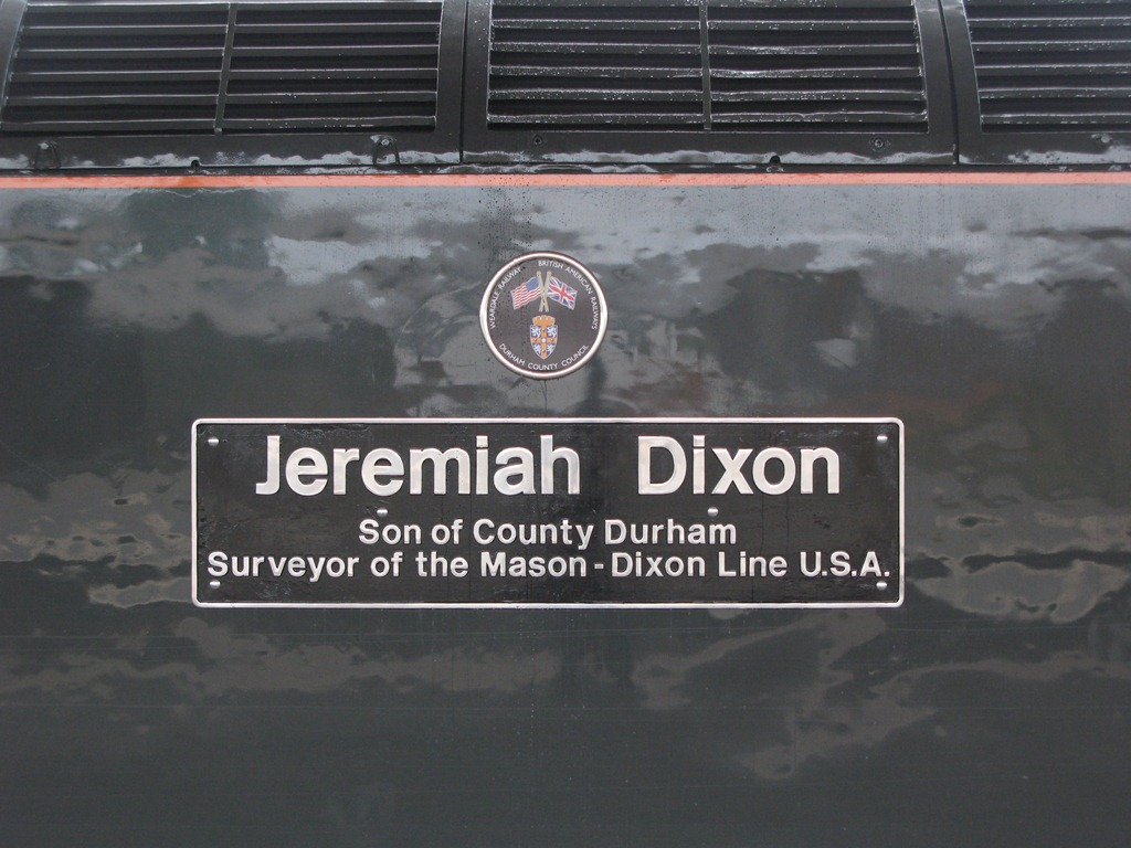 The newly-applied nameplate of Devon and Cornwall Railway's 56312 Jeremiah Dixon. It celebrates an English surveyor who set out the Mason-Dixon line in America to fix the borders between the colonies of Pennsylvania, Maryland, Delaware and West Virginia.